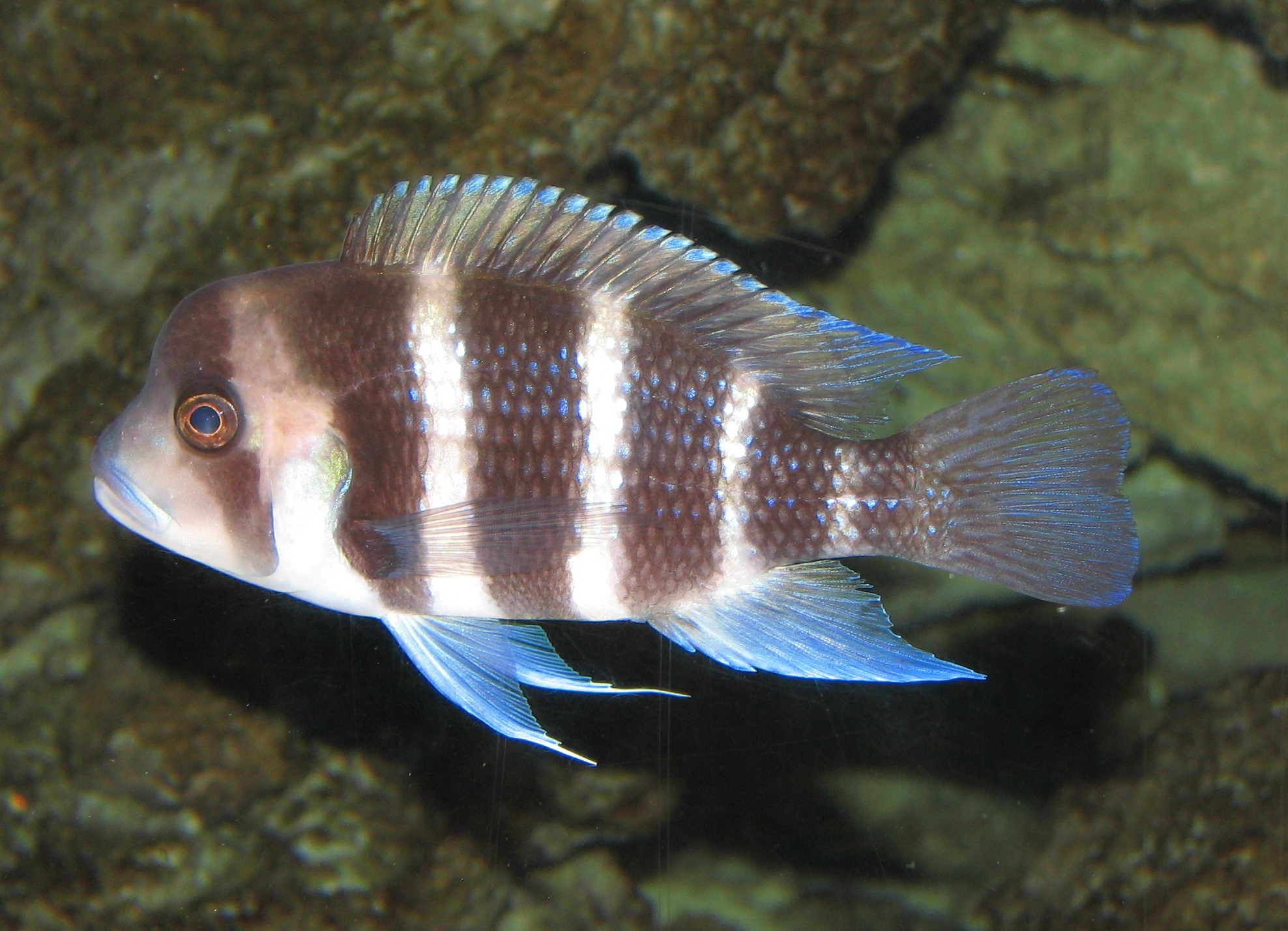 Cyphotilapia frontosa at Newport Aquarium in Newport Kentucky